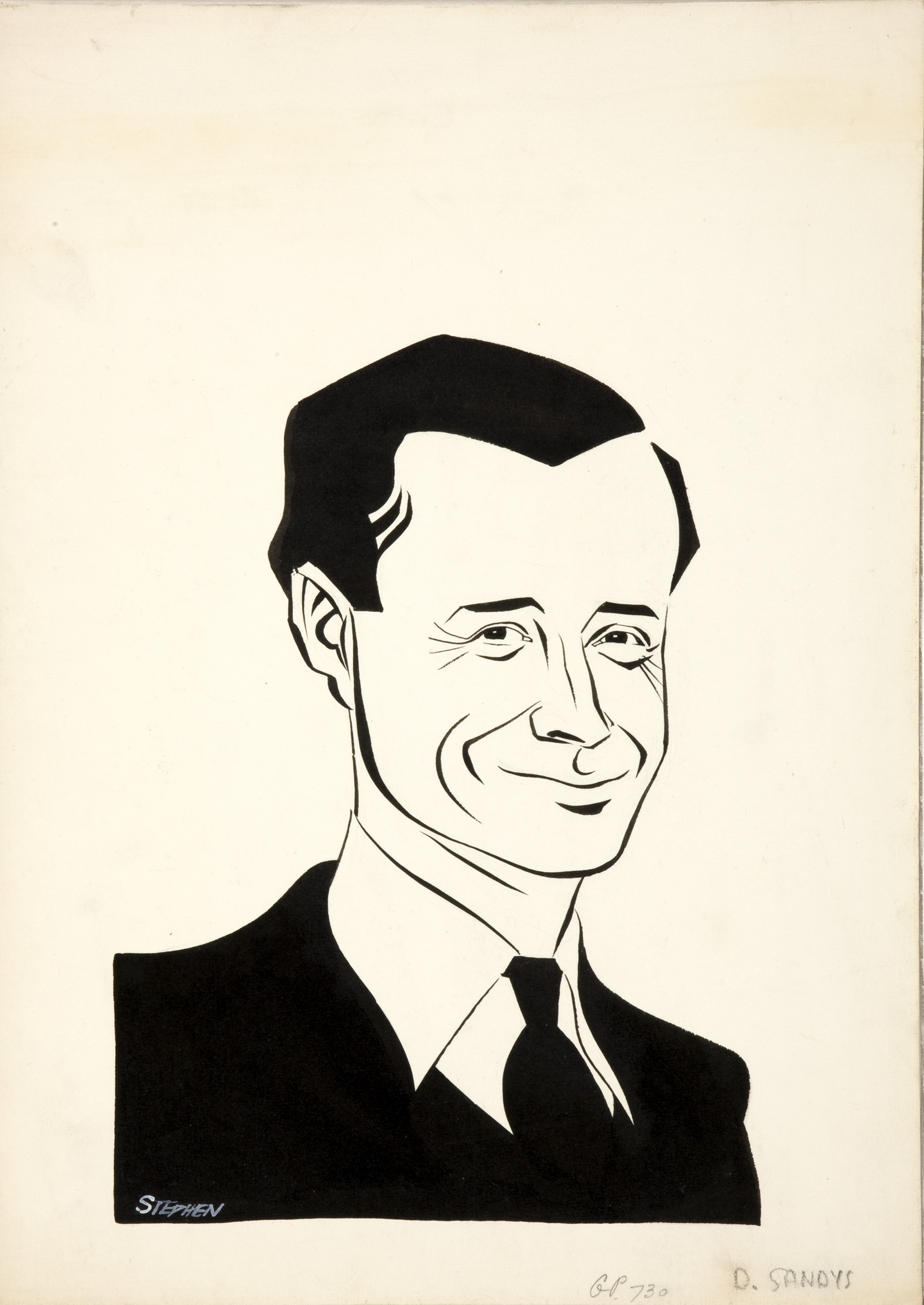 Duncan Sandys Depicted person: Duncan Sandys